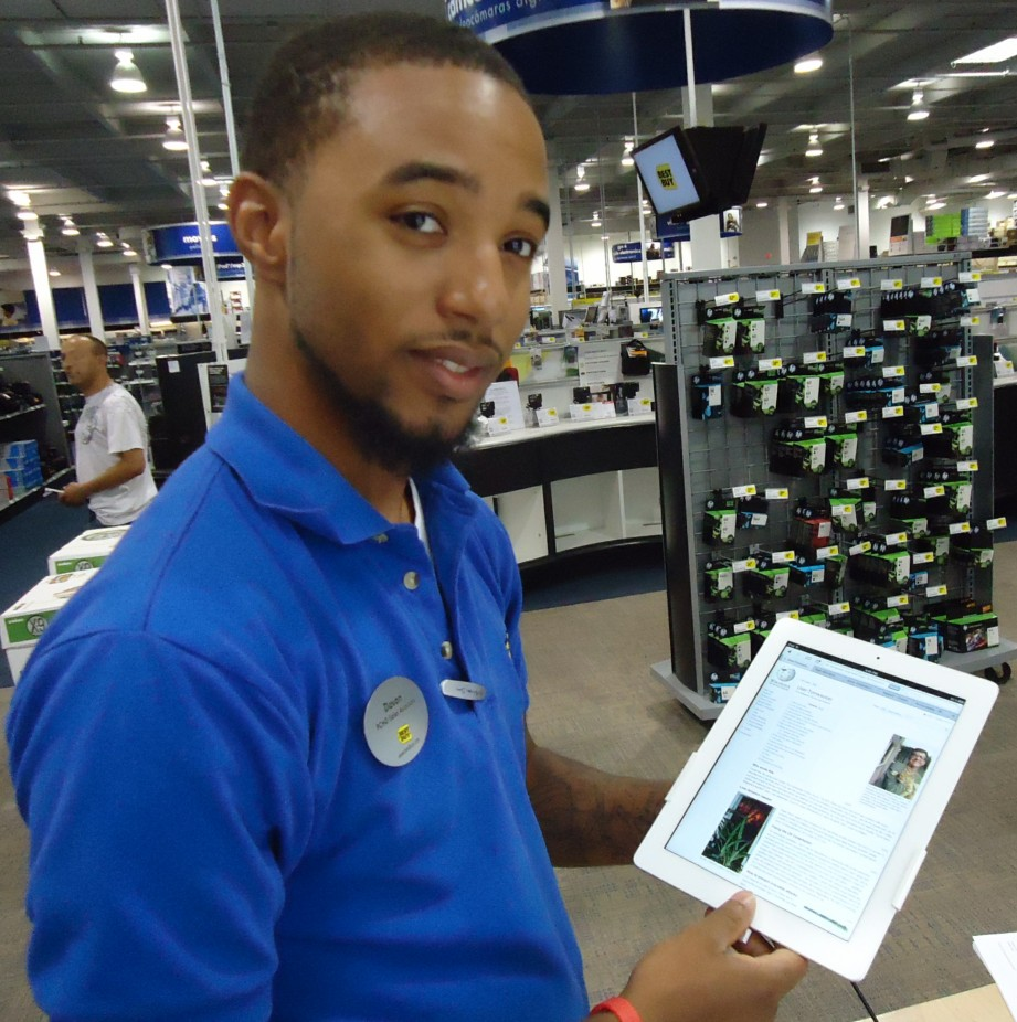 Salesperson at Best Buy demonstrating Apple iPad